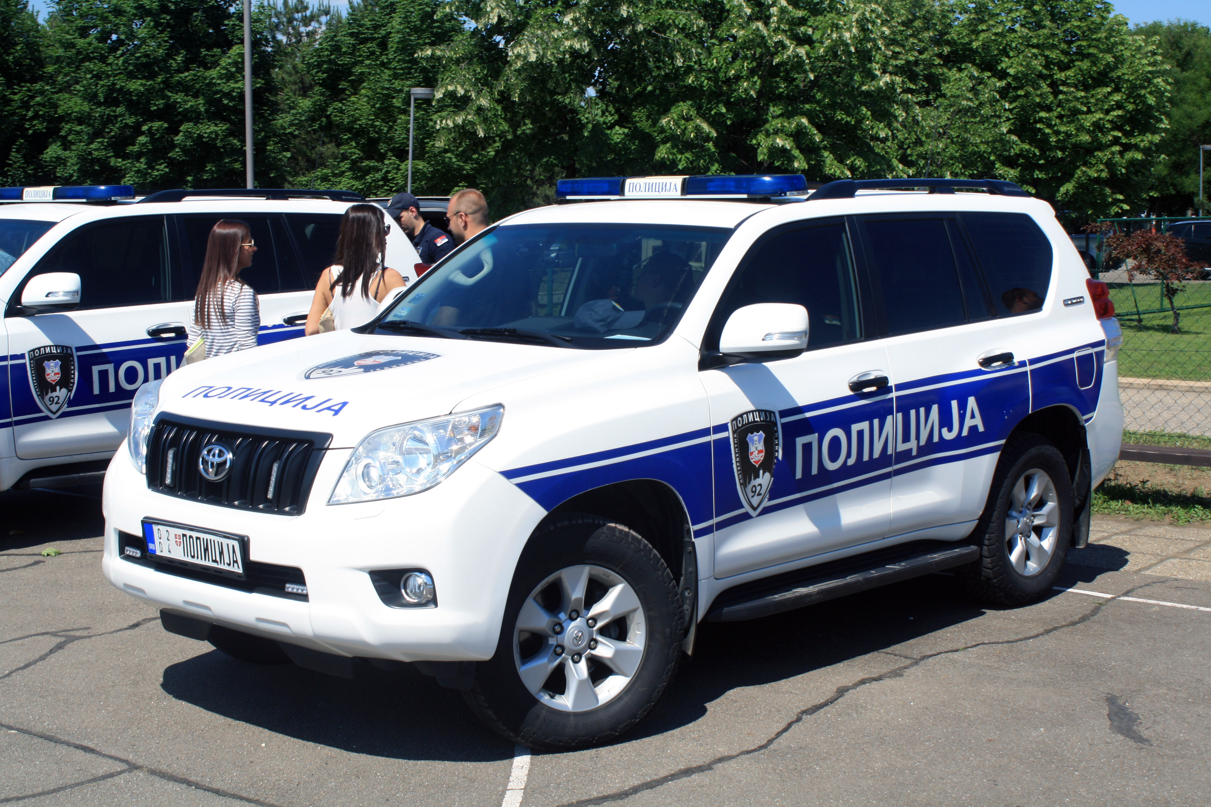 Belgrade police department immediate response police unit Toyota Land Cruiser.